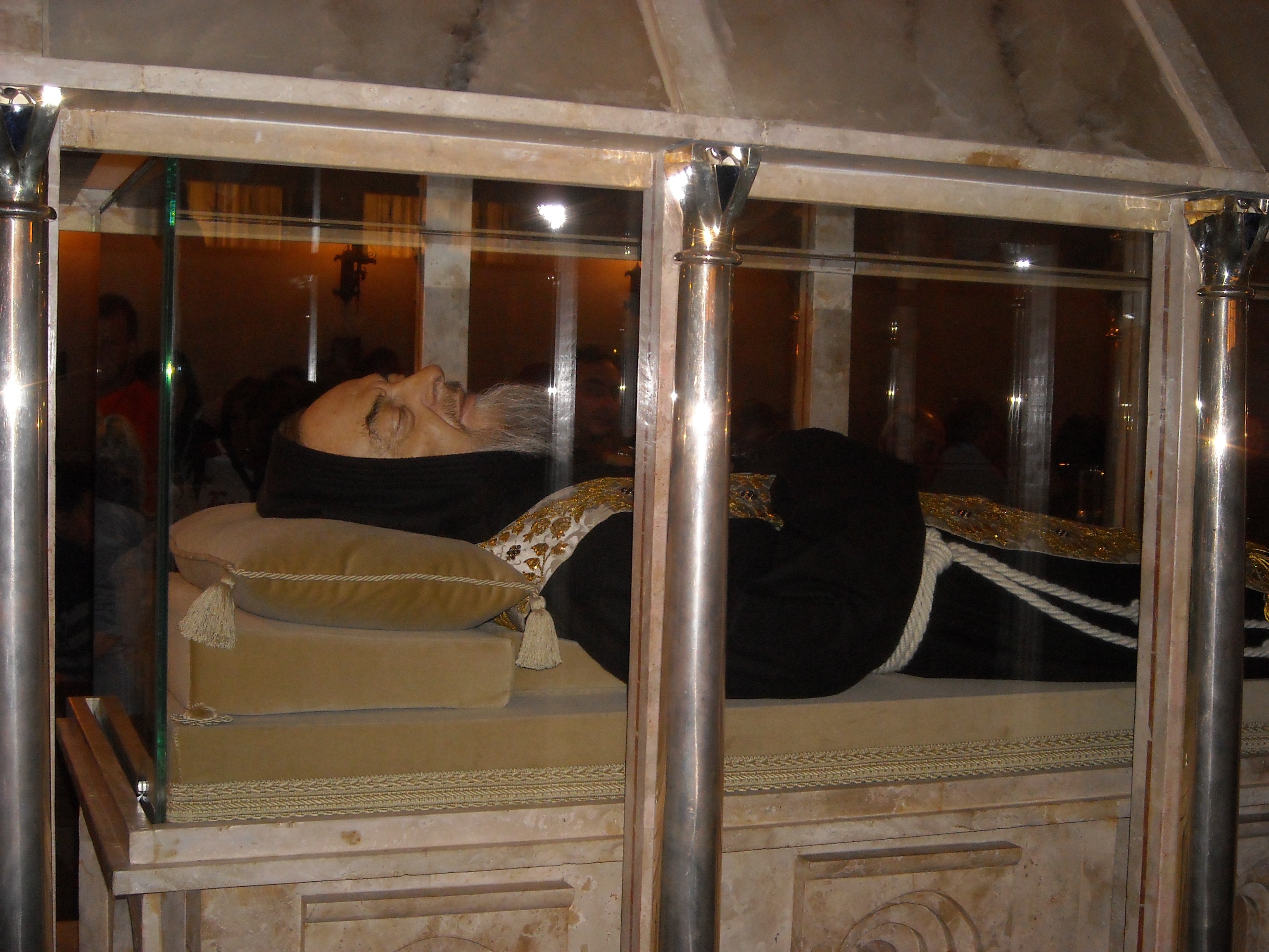 Body of Saint Pio da Pietrelcina. Due to its deterioration, his face is covered with a life-like silicone mask.